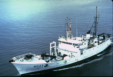 The National Oceanic and Atmospheric Administration fisheries research ship NOAAS Townsend Cromwell (R 443)